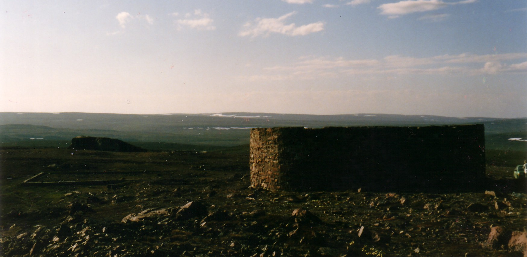 Remains from World War II at Kibergneset Coast Fort near Vardø, North Norway